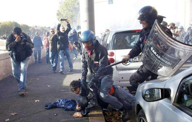 Demo in Rome for the European Strike